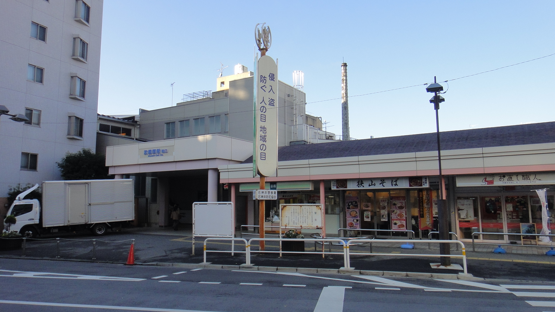 The south entrance to Musashi-Seki Station on the Seibu Shinjuku Line